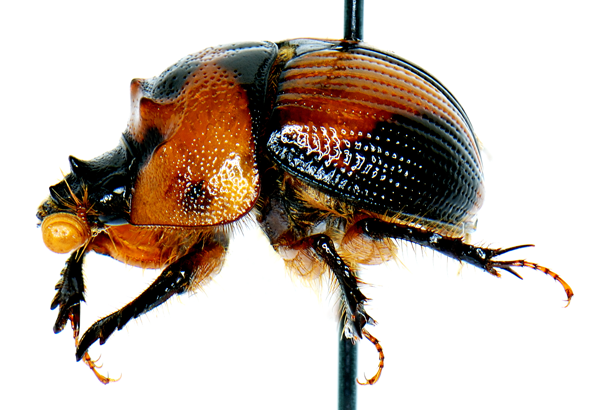 Specimen of Bolbocerosoma tumefactum (Beauvois), a rarely encountered relative of scarab beetles, in lateral view. This individual was collected in USA: Connecticut: Middlesex County: Killingworth, in a flight intercept trap set among mosses, between mixed woods (red maple, poplar, juniper et al.) and a blueberry patch at edge of a hayfield, 02-Jun to 04-Jul-2002, collector M.K. Oliver, in collection of same.